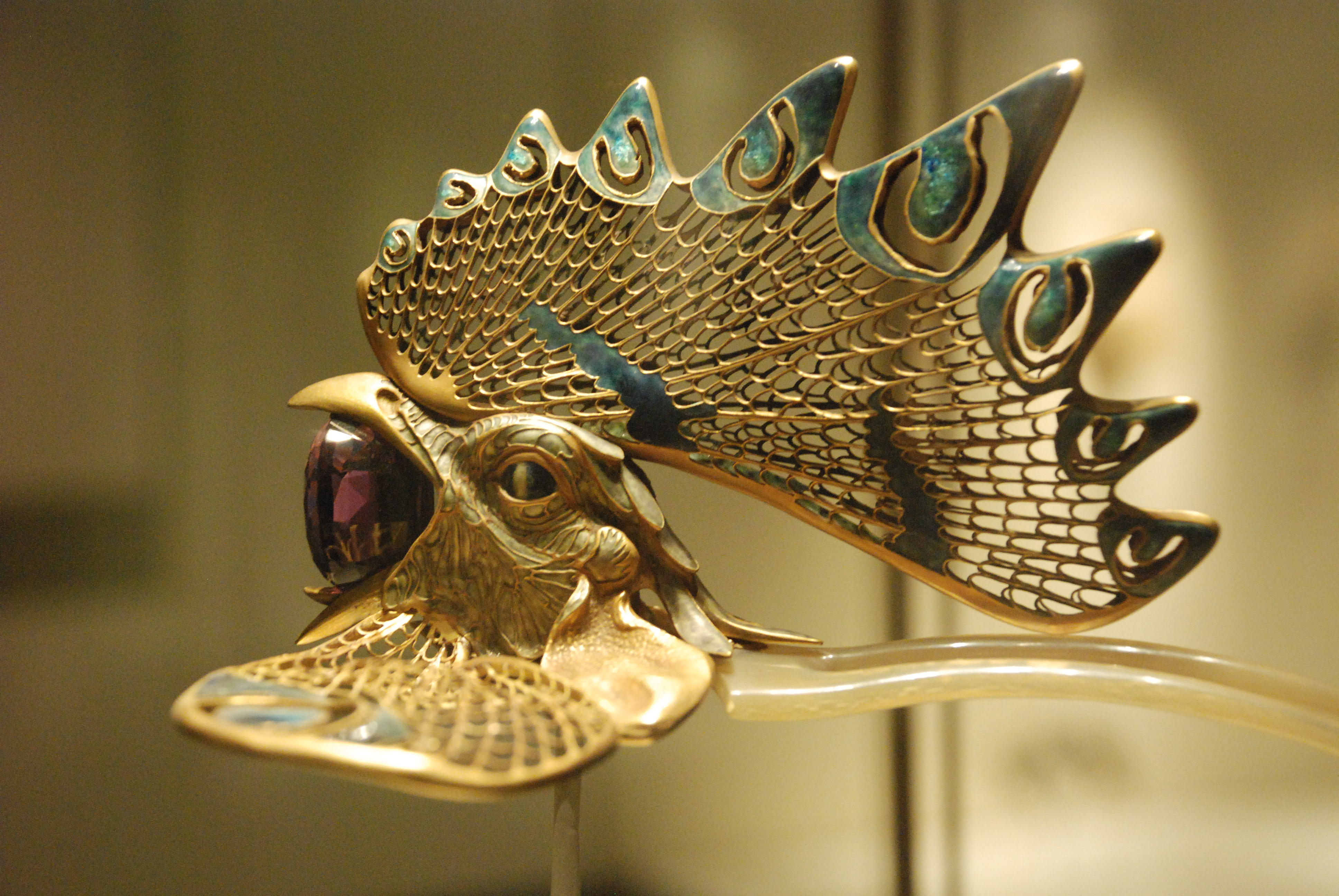 'Cockerel' diadem, French, 1897-1898. Gold, enamel, horn and amethyst. Reference